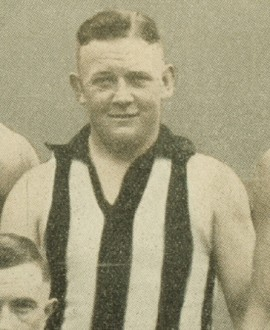 Photograph of Horace Edmonds from 1929-1934